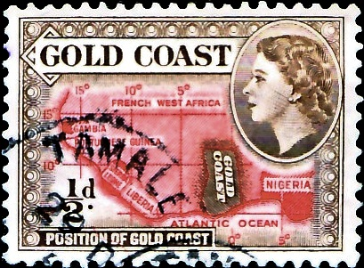 Gold Coast stamp; Elizabeth II in Oval, ½ d.